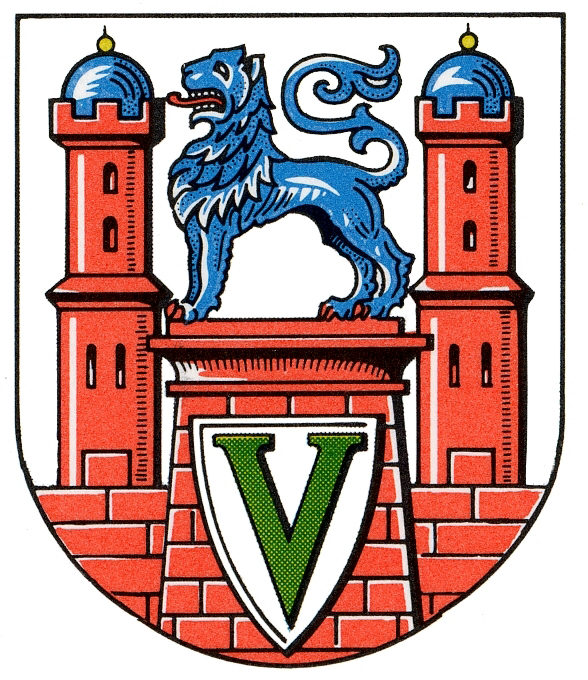 Coat of arms of the city Uslar in Lower Saxony, Germany.